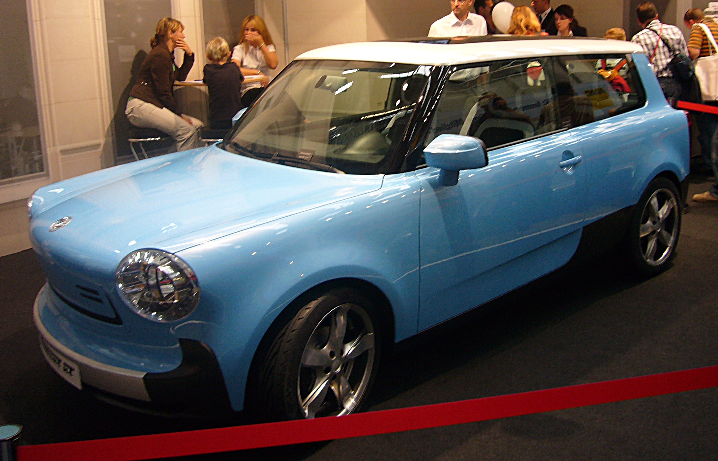 Trabant nT Concept at IAA Frankfurt 2009